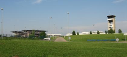 aeroport metz nancy lorraine